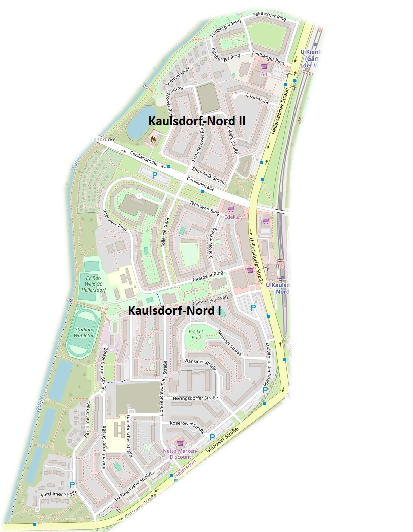 This map may be incomplete, and may contain errors. Don't rely solely on it for navigation.